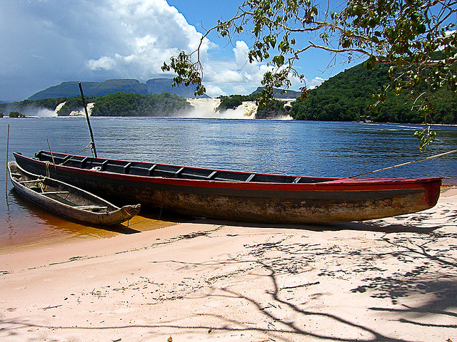 Canaima National Park, Venezuela.